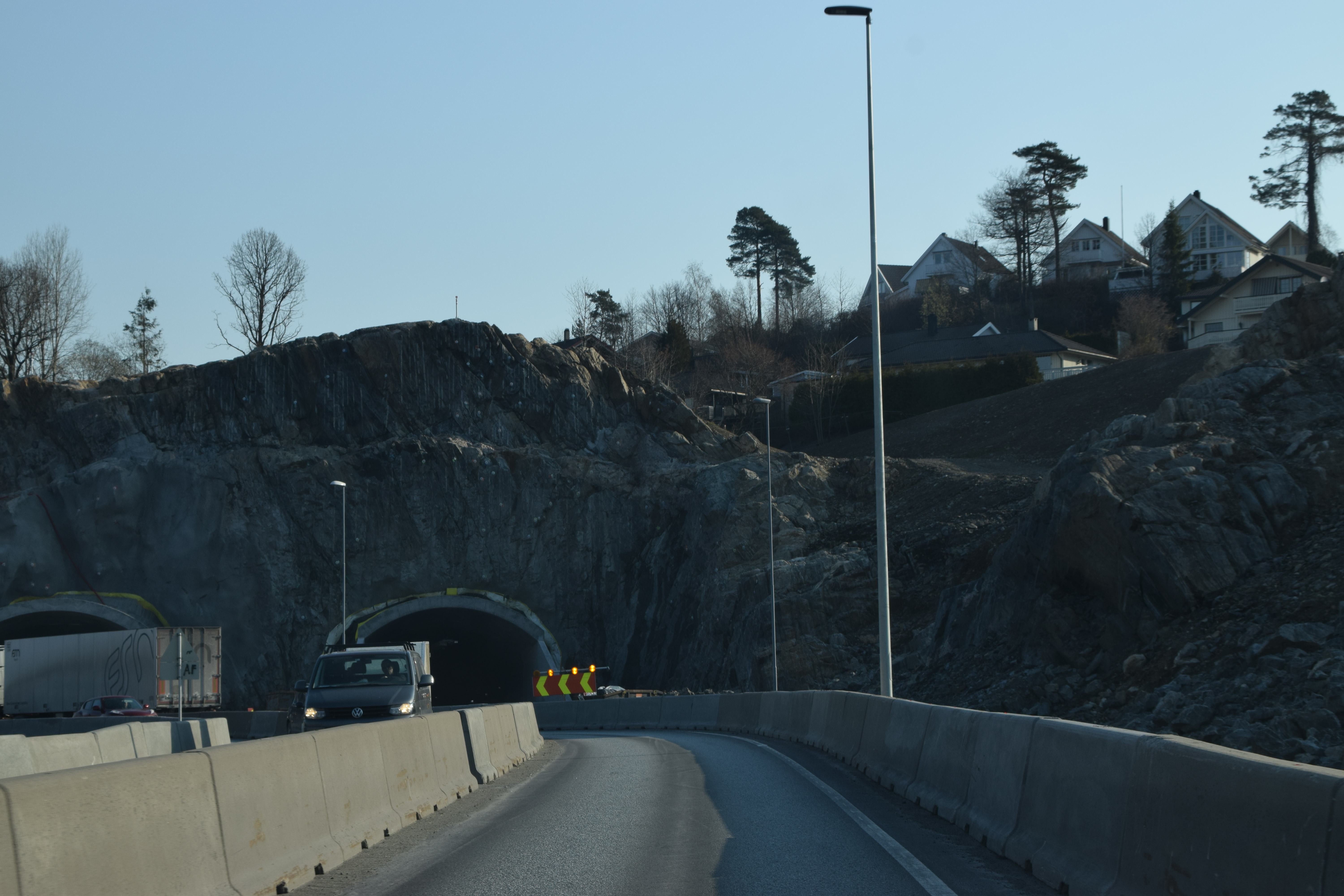 The Torsbuåsen tunnel under construction.